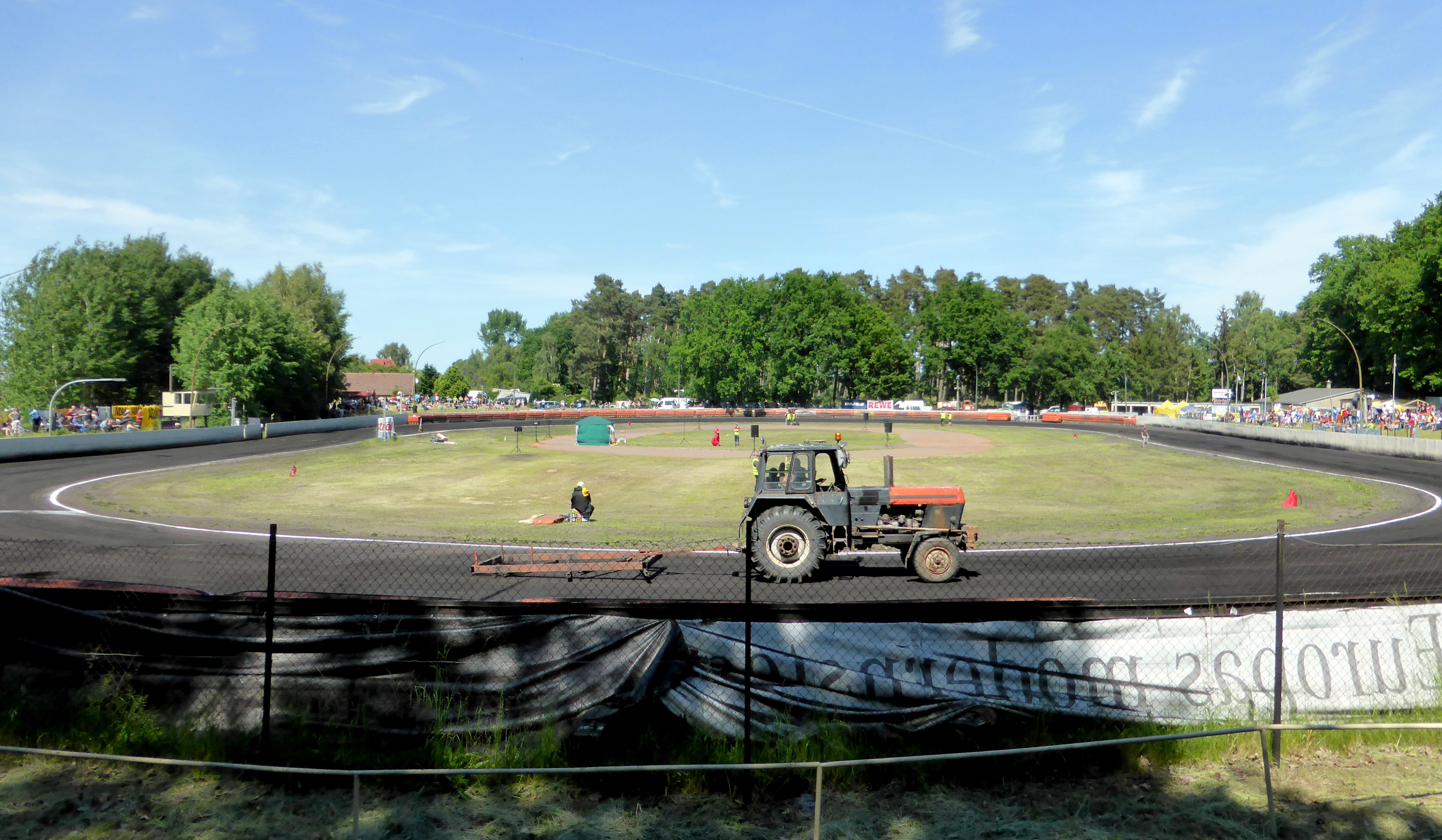 German Speedway Bundesliga. Wolfslake Falubaz Berlin vs Nordstern Stralsund in Wolkfslake.